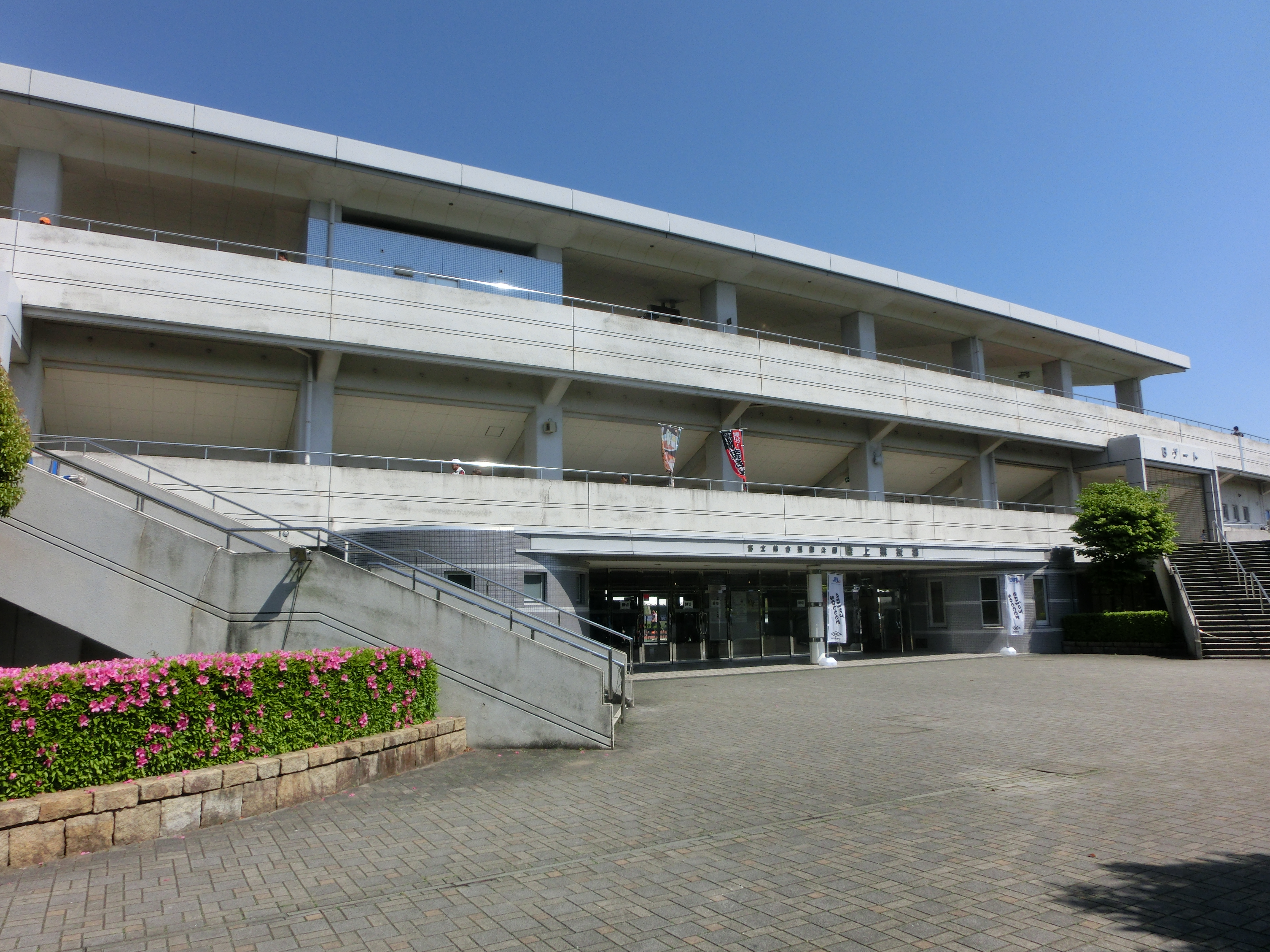 Fujisogo Stadium